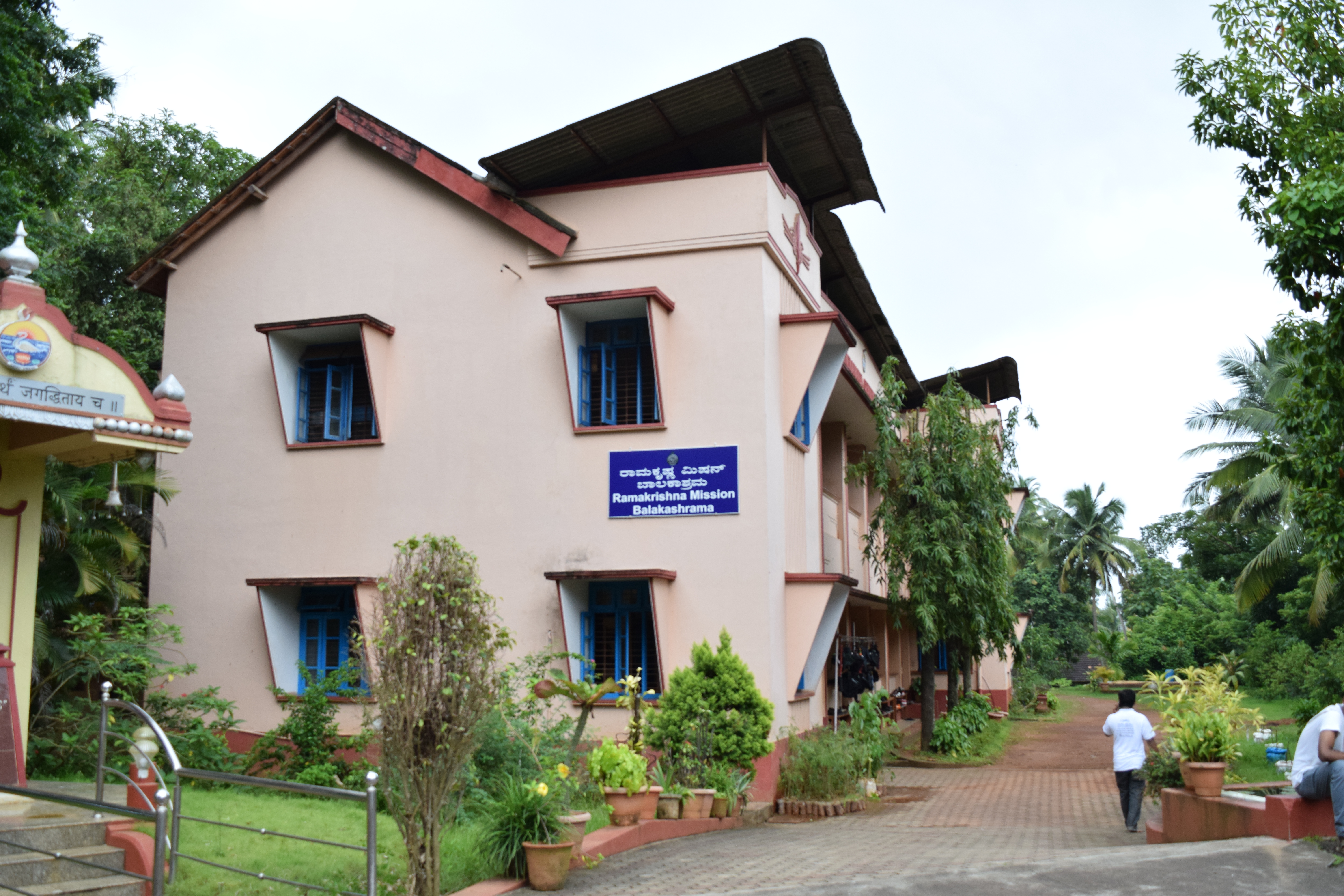 Ramakrishna ashram Mangalore Balakashrama